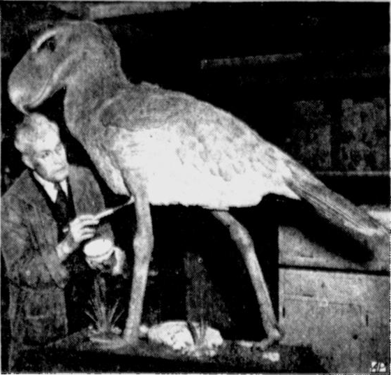 Model of the terror bird Mesembriornis at the Chicago Field museum, prepared by taxidermist Leon L. Pray, seen on the left. The modelling mixture consisted of casein paint, ground asbestos, chopped tow and pencil-sharpener shavings. The feathers were made of balse bood. The feet and claws were whittled out of tulip-tree wood. Though it cannot be seen in this black-and-white photo, the model was colored to follow the coloration of the cariama (red-legged seriema), relatives of the terror birds.